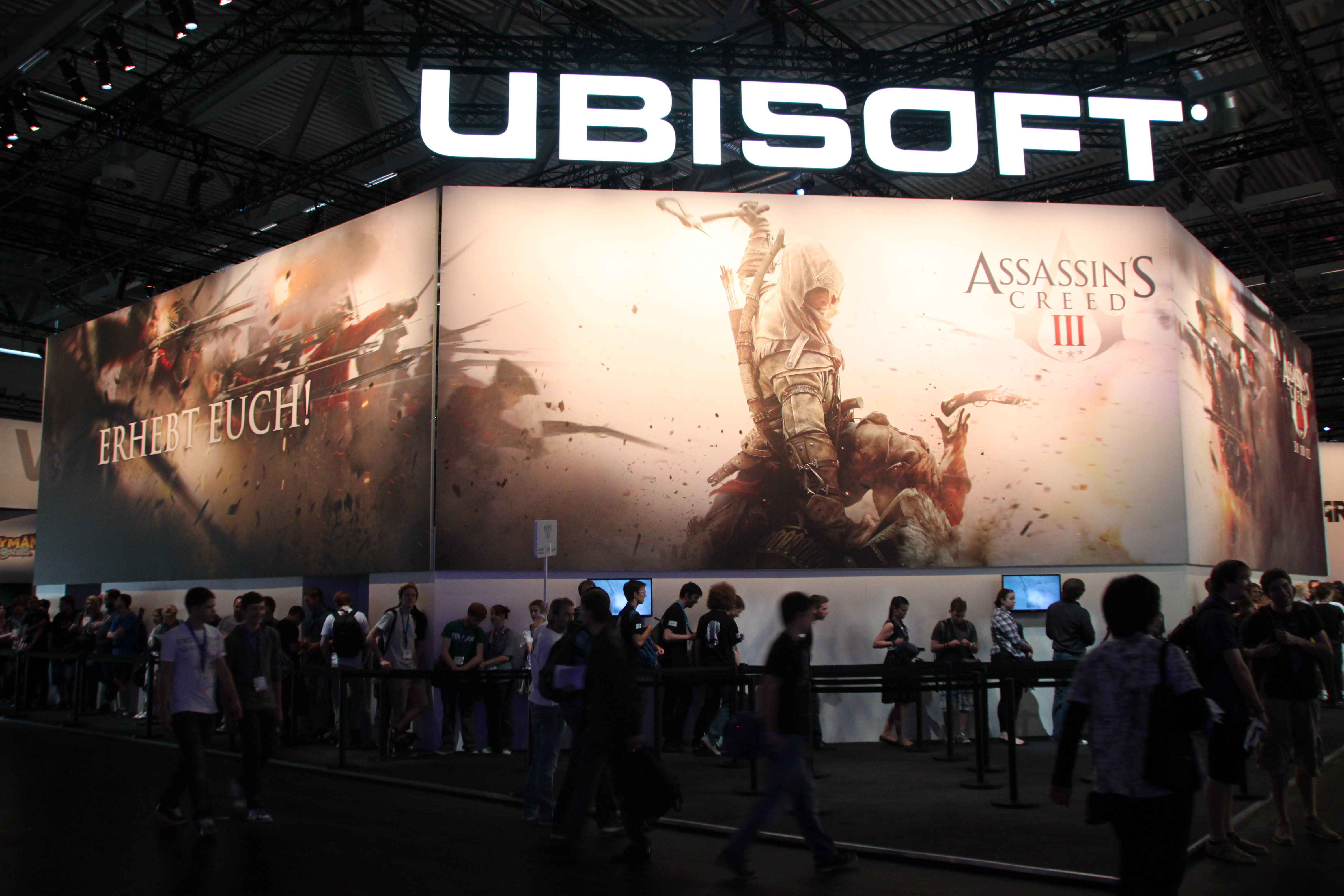 Assassin's Creed III